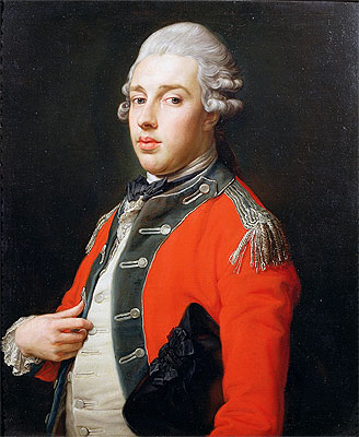 Portrait of George Cholmondeley, 1st Marquess of Cholmondeley (1749-1827)